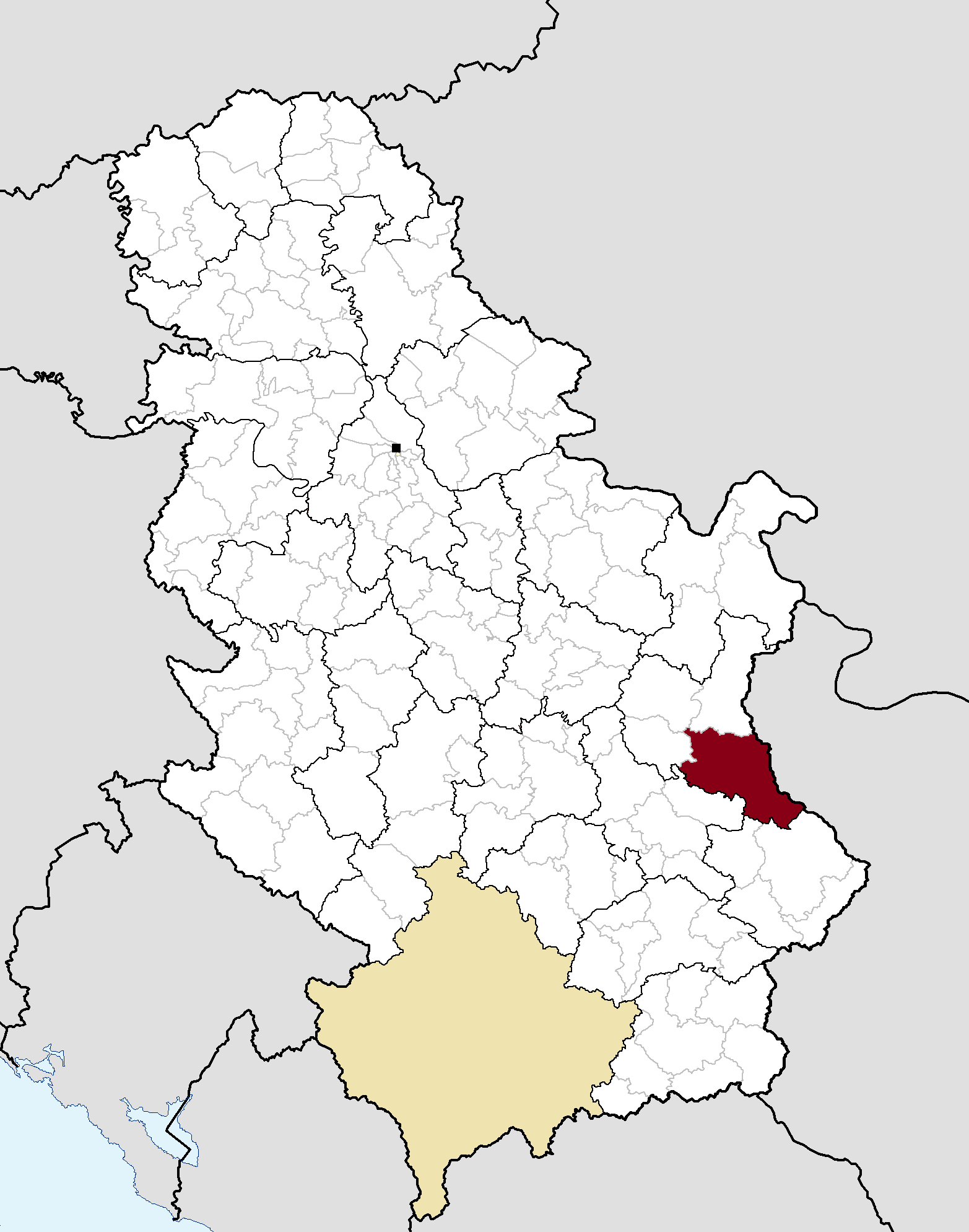 Municipal location in Serbia